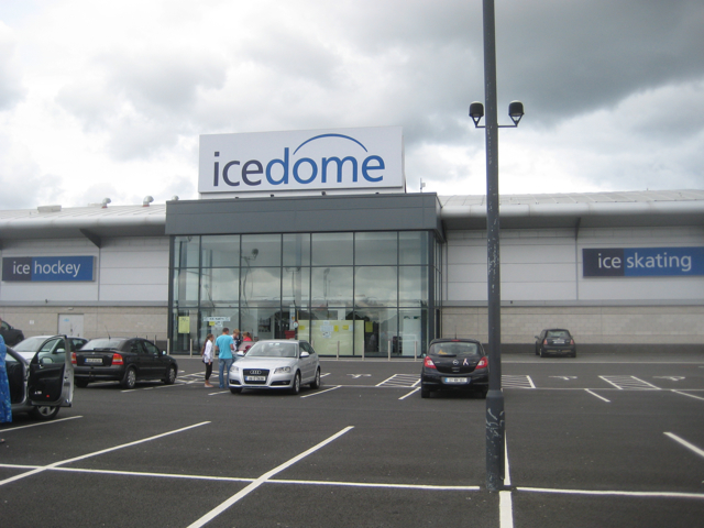 Dundalk Icedome Opened in 2007, Dundalk Icedome is the first permanent ice arena in Ireland. It is located in Dundalk Retail Park.